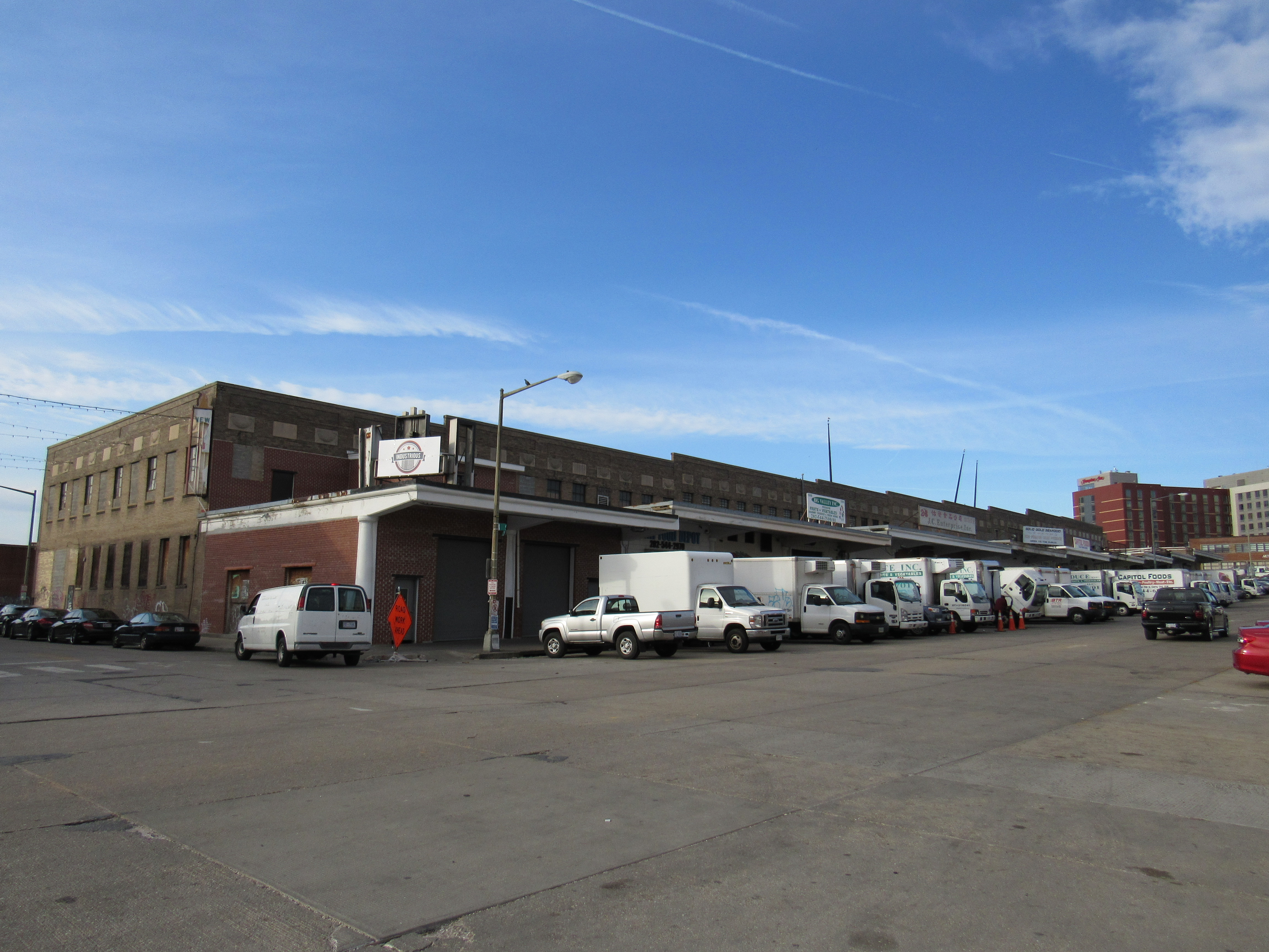 in Northeast Washington, D.C.